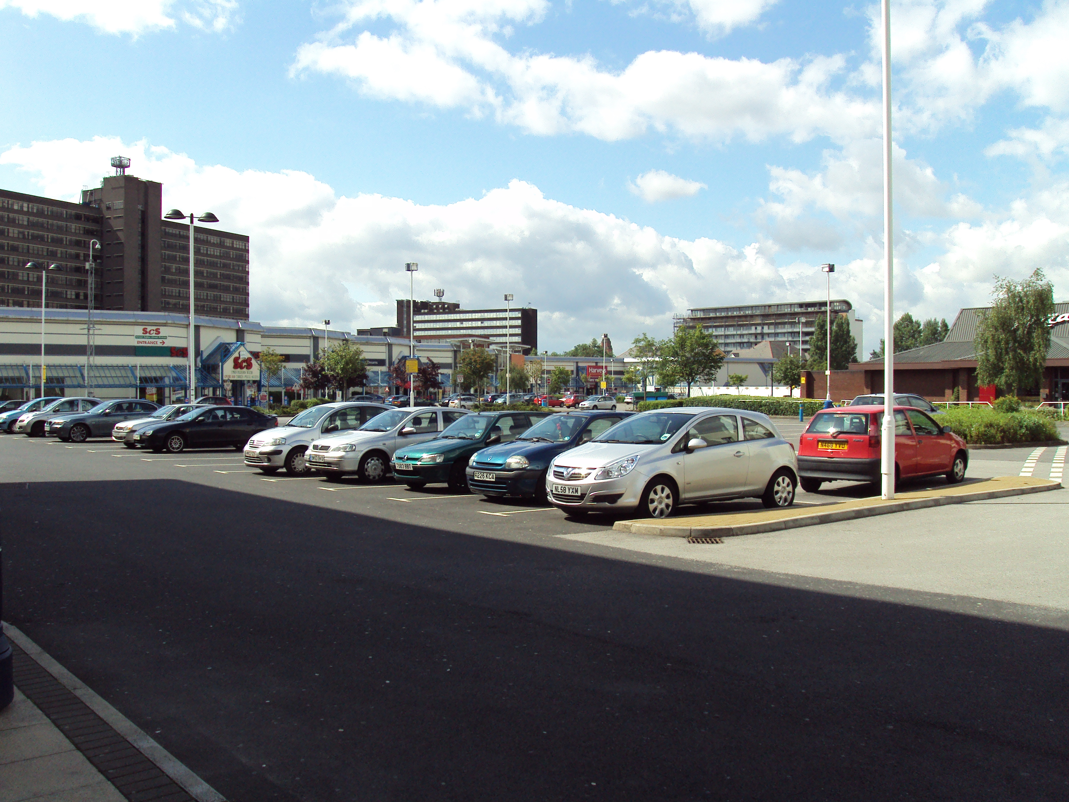 White City retail park, Old Trafford, Greater Manchester, England.